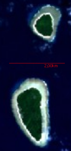 Satellite view of the Sonsorol Islands (Dongosaro and Fanna).